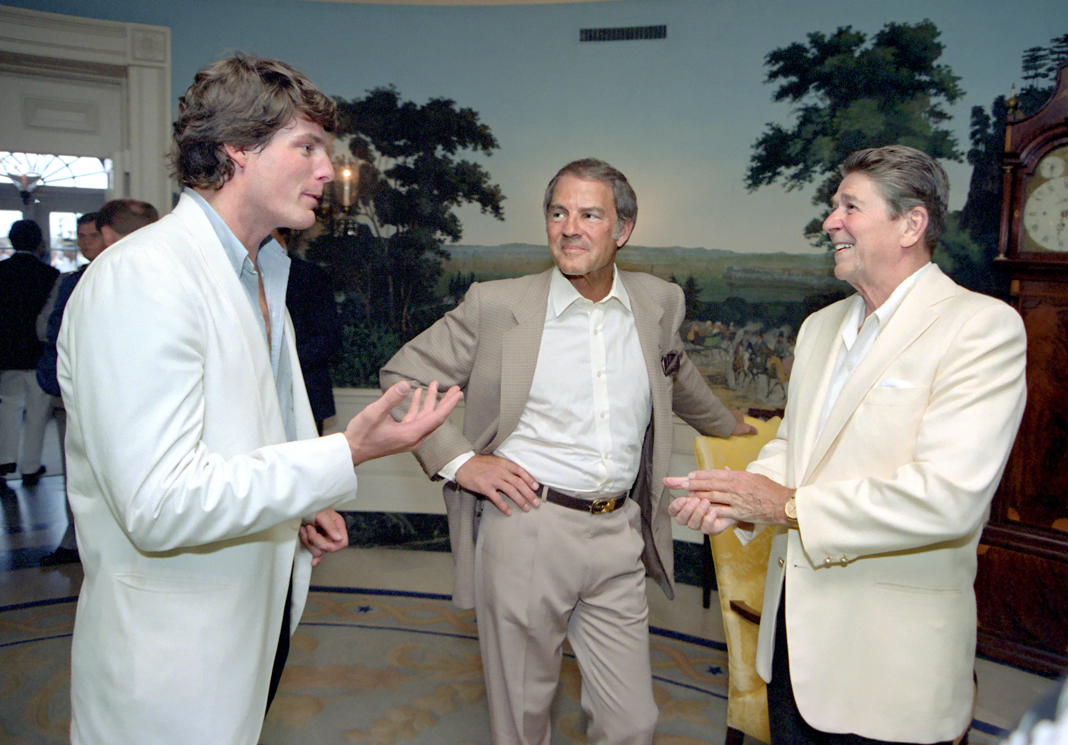 President Reagan talking with Christopher Reeve and Frank Gifford during a reception and picnic in honor of the 15th Anniversary of the Special Olympics program in the Diplomatic Reception room.